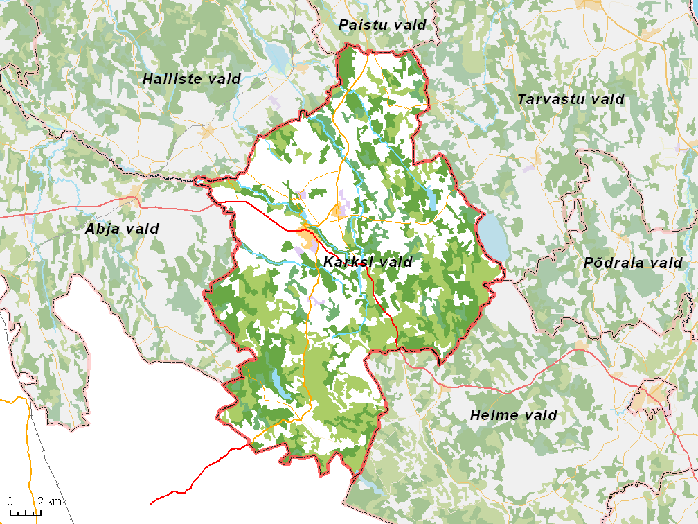 Map of municipality in Estonia